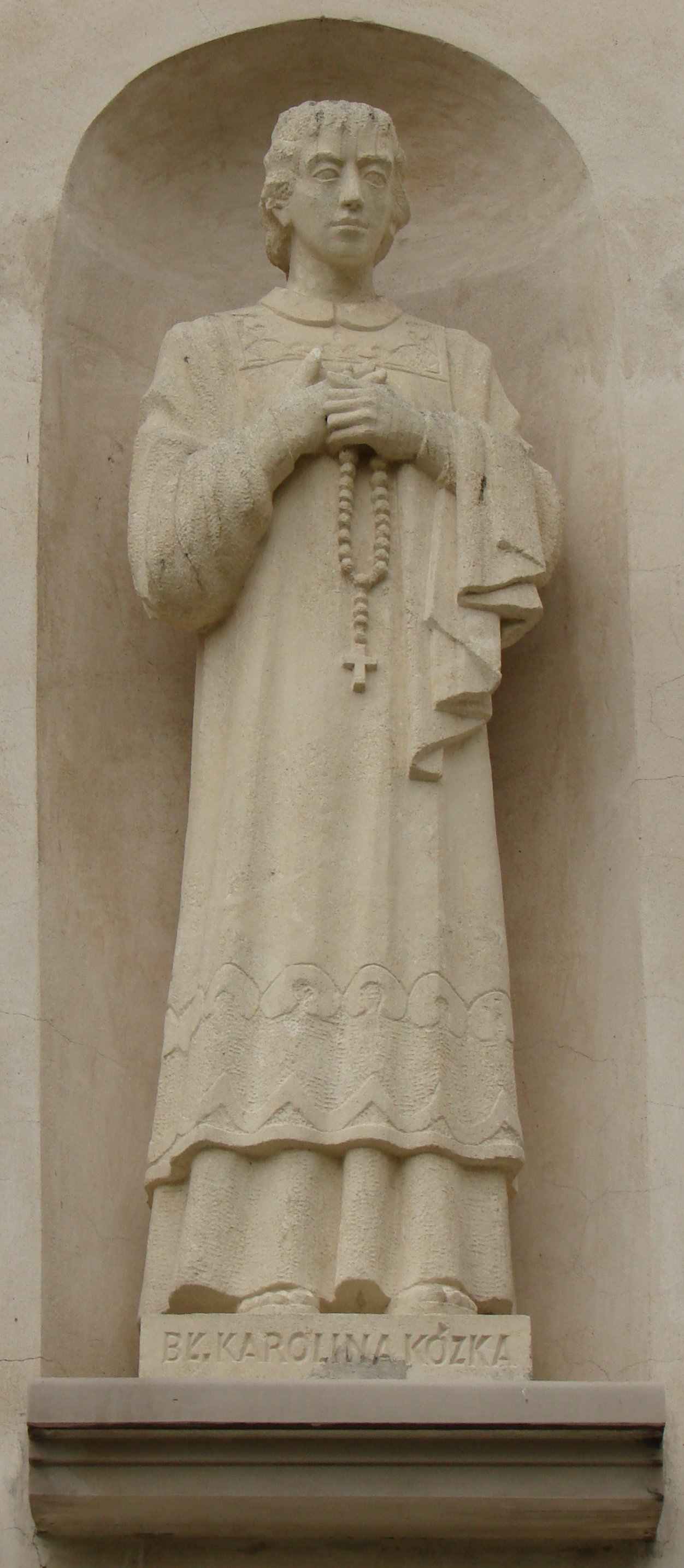 Sculpture of Karolina Kózka from Saint Joseph's church in Muszyna, Poland